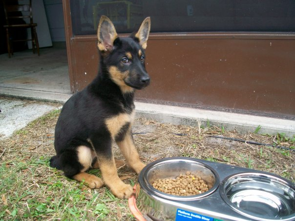 3 Month Old AKC German Shepherd Puppy